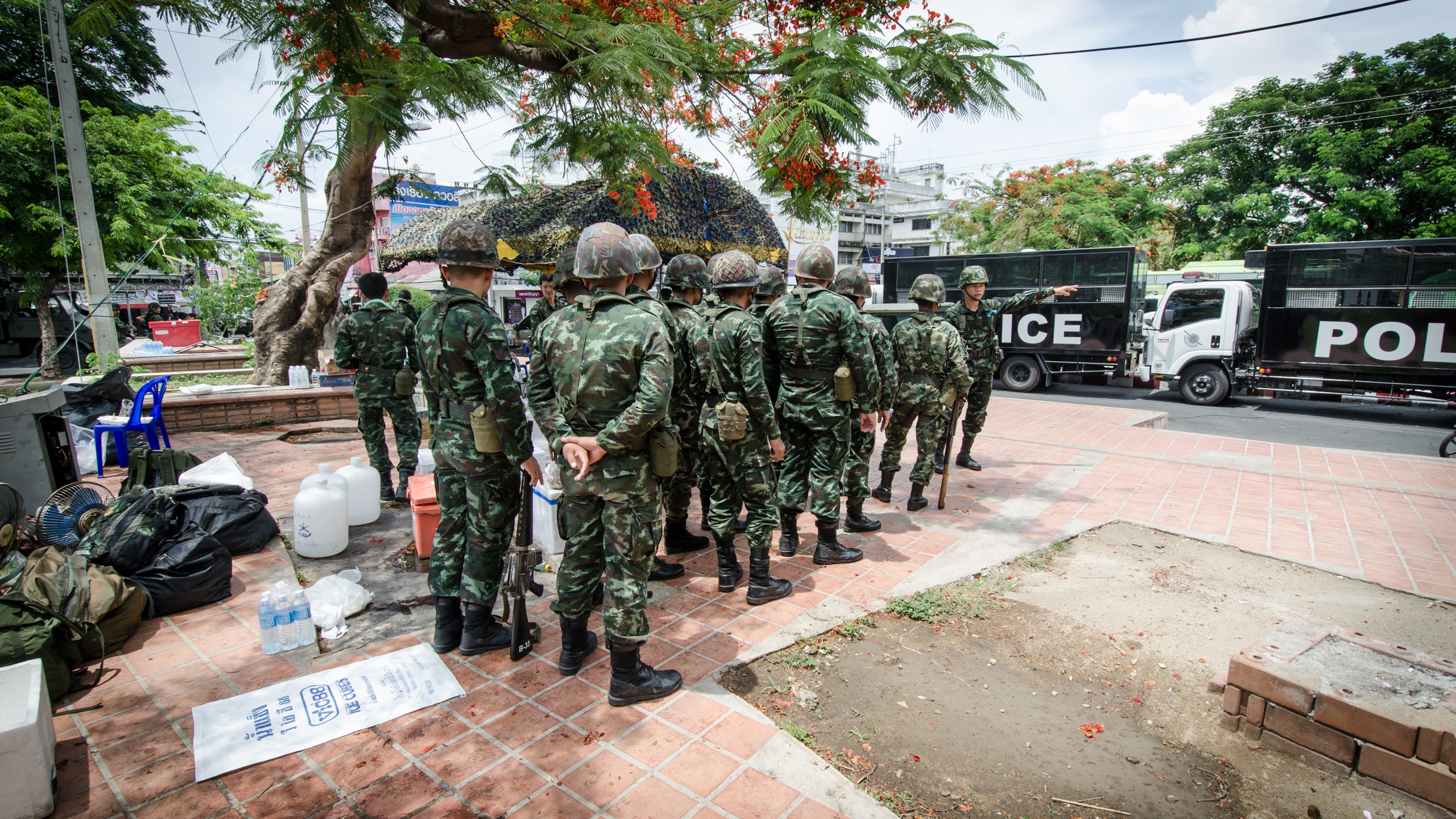 Thai military at Chang Phueak Gate in Chiang Mai.